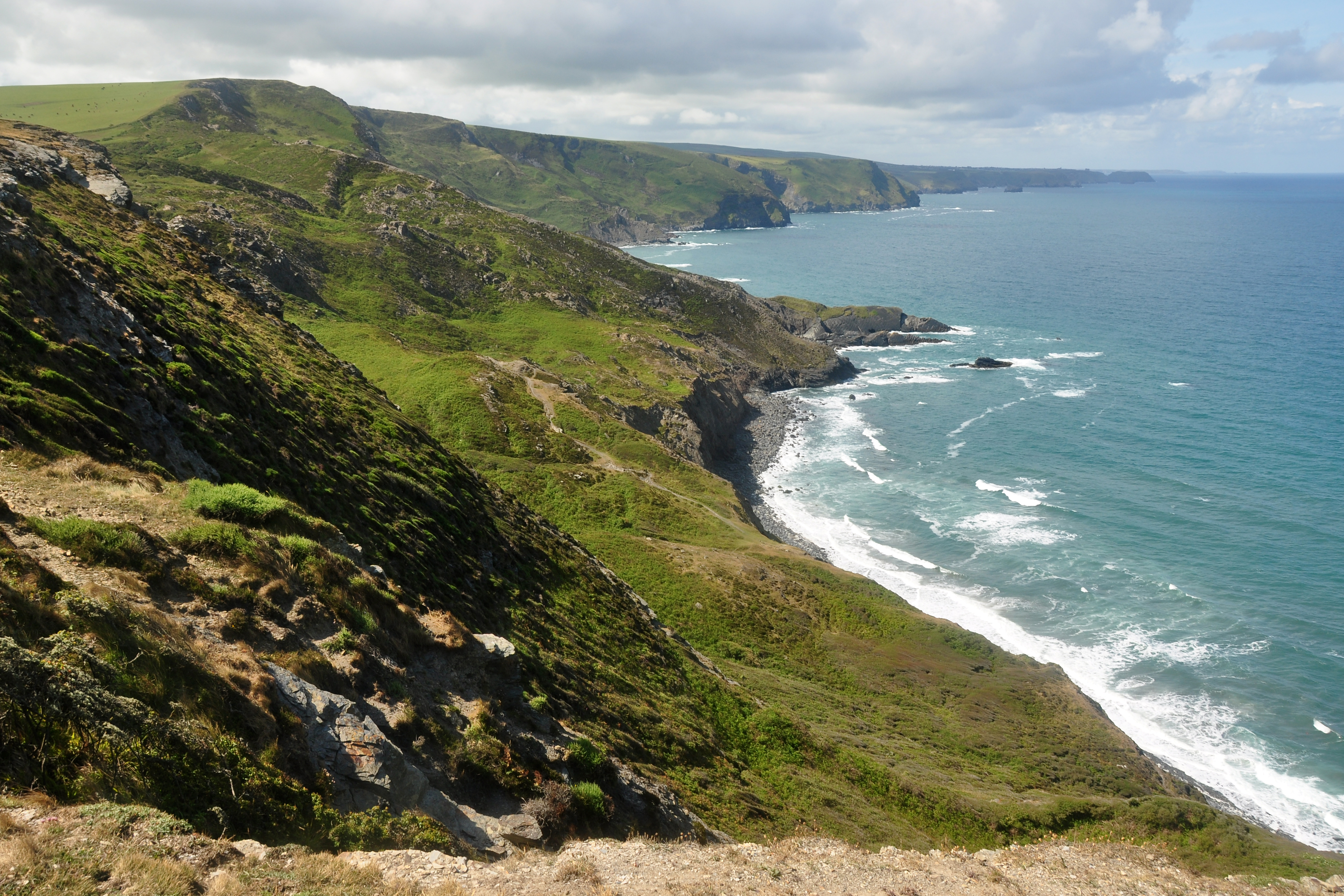 High Cliff, near Crackington Haven in Cornwall. High Cliff (at 223m) is the highest point on the Cornish coast.